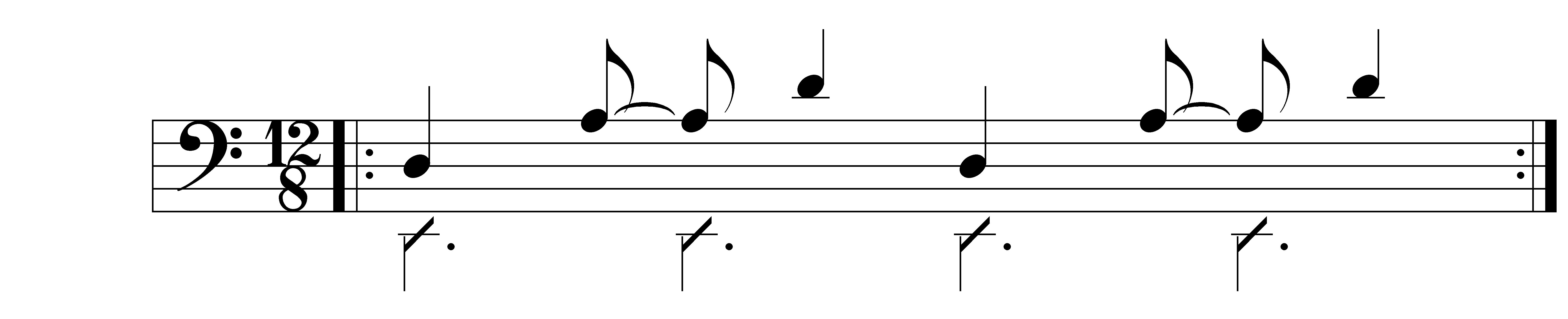 The cross-rhythmic character of the Afro Blue bass line.